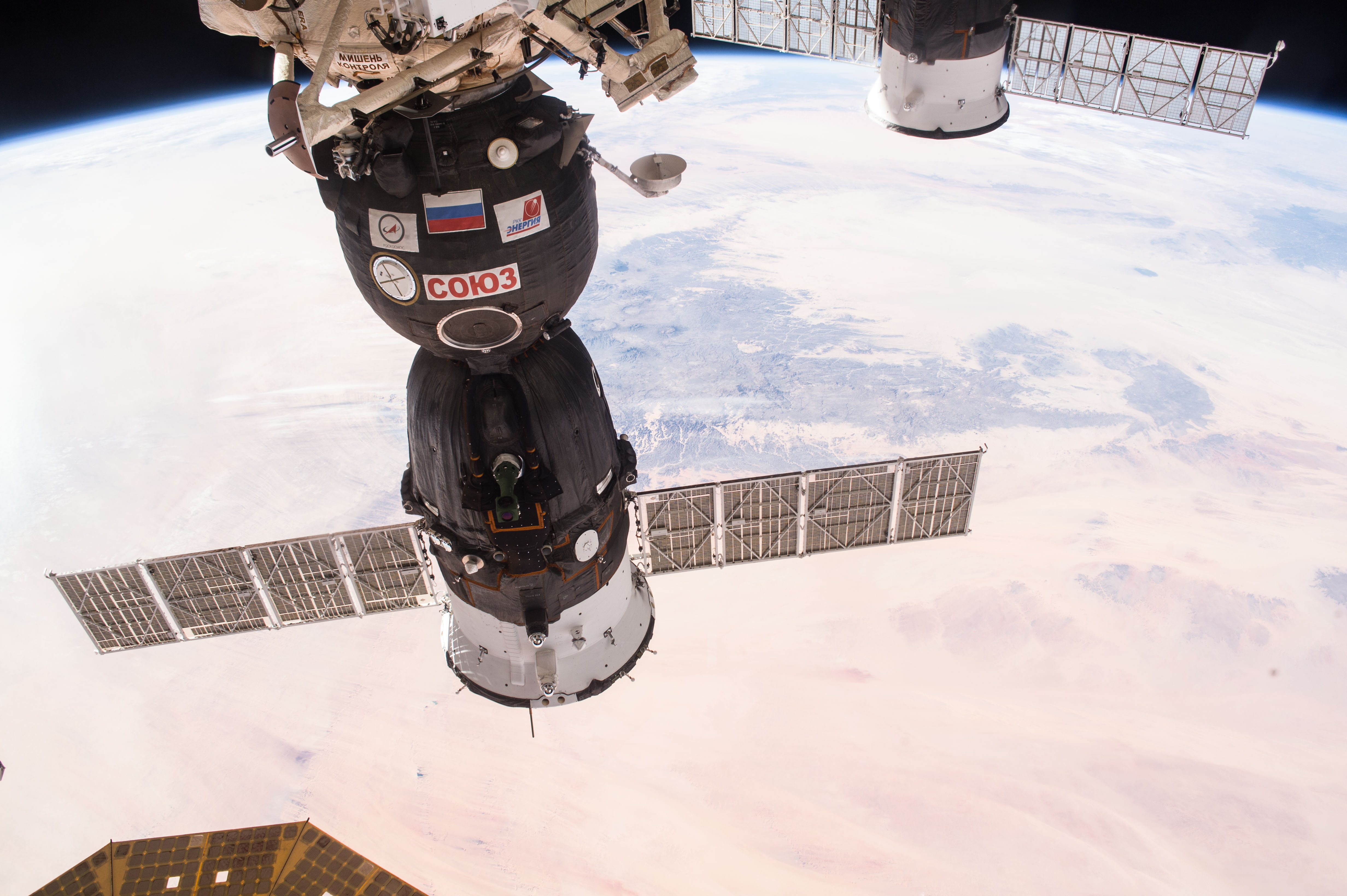 NASA astronaut Scott Kelly took this image of Soyuz from the International Space Station.